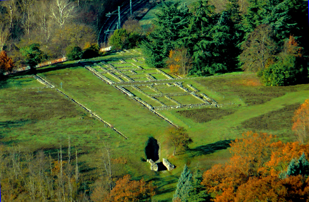 Aereal view of the etruscan city at Marzabotto. This pictur has been taken from the hills surrounding marzabotto. In the center it is visible a large street, 15 m whide, named "D", and on the right the foundations of the houses This is a photo of a monument which is part of cultural heritage of Italy.